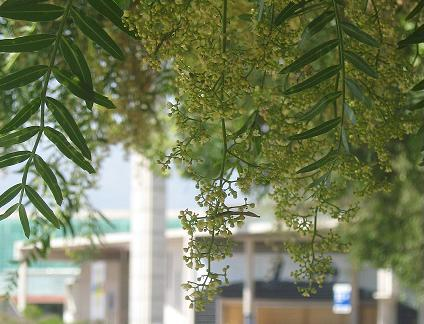 Schinus areira, full blooming